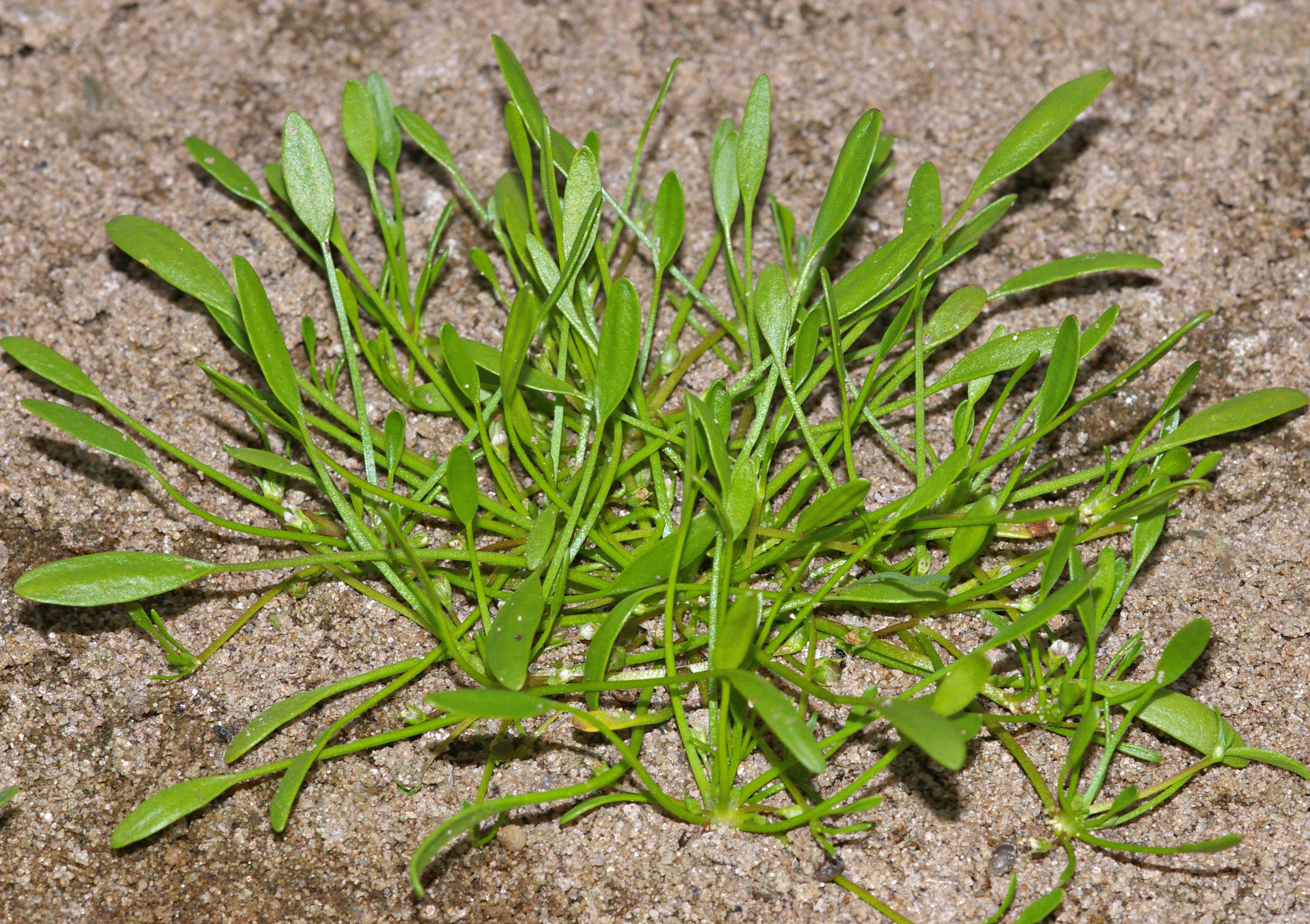 Habitus of Limosella aquatica (Plantaginaceae, formerly Scrophulariaceae) at the banks of the Elbe River.